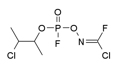 Structure of A-234 according to Hoenig